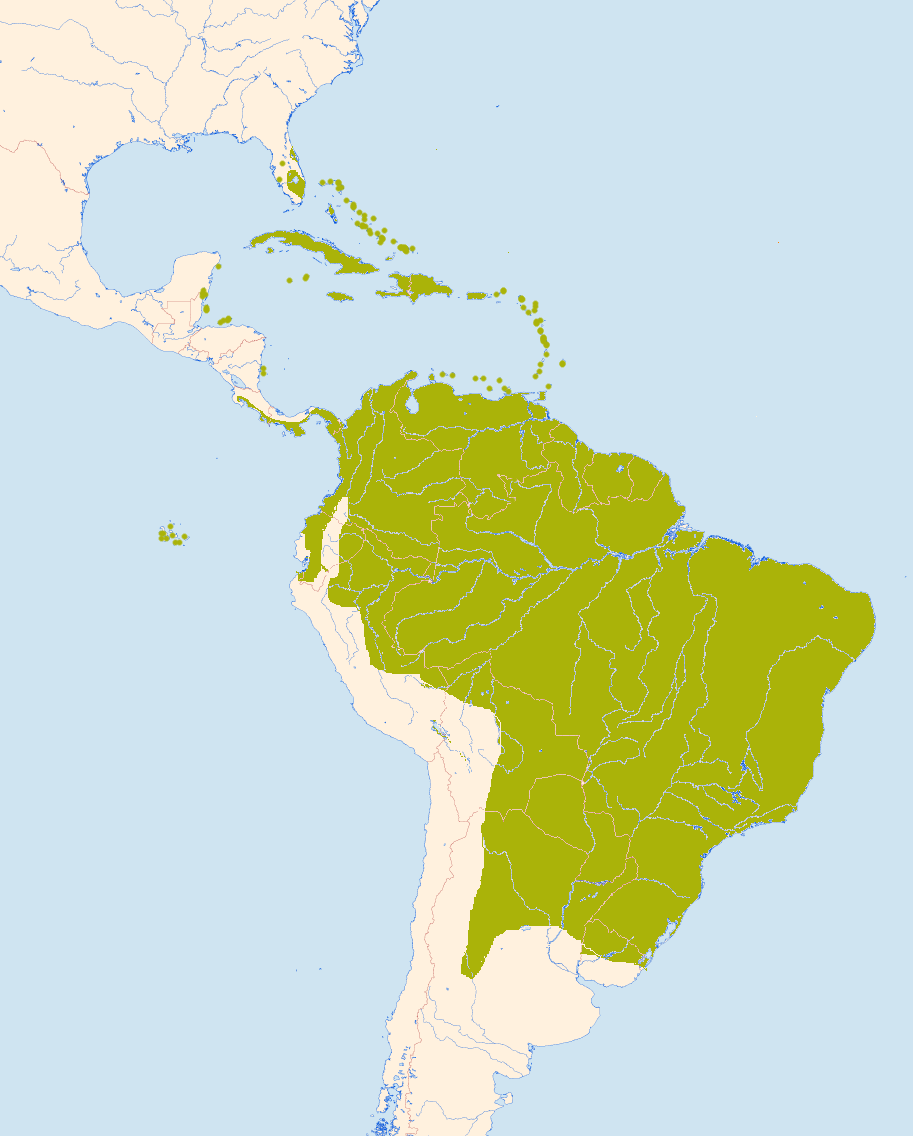 Crotophaga ani - range map